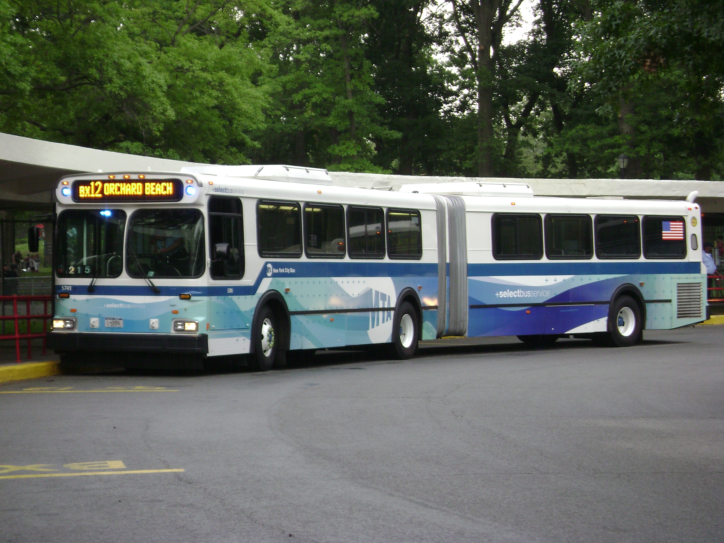 5741 lays over at the Orchard Beach Bus Terminal in The Bronx, on the first day of Bx12 +selectbusservice.